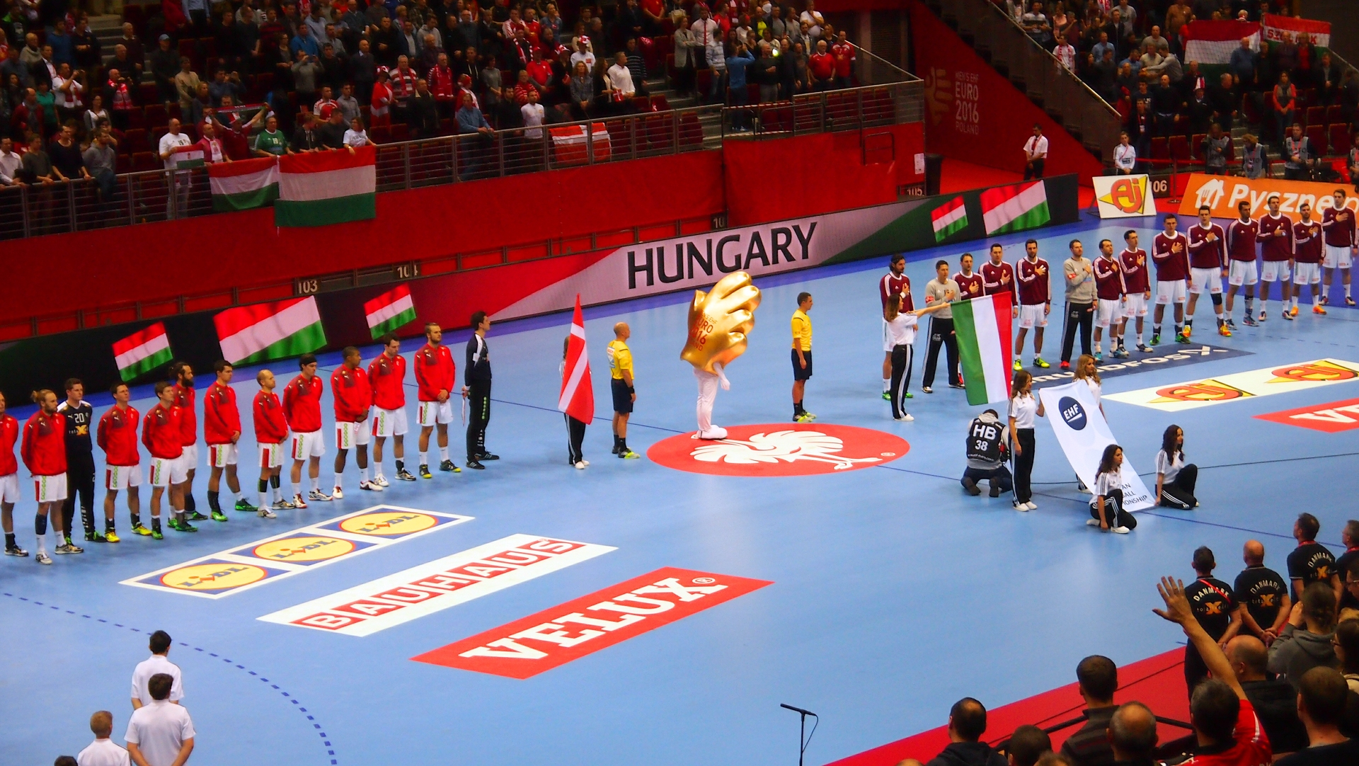 Denmark vs Hungary during group stage at the 2016 European Men's Handball Championship on january 20, 2016 at Ergo Arena, Gdańsk.